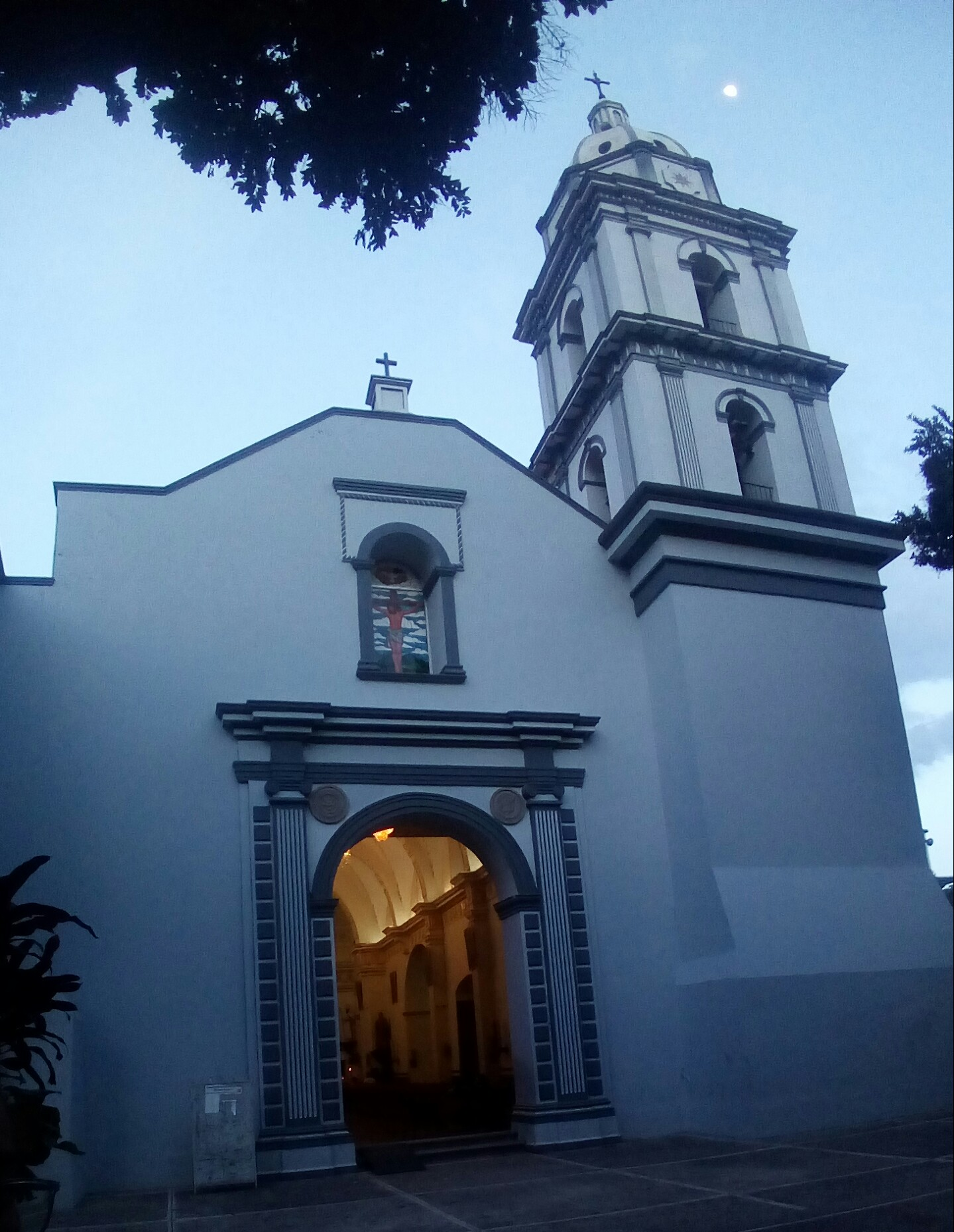 Catedral de San Agustín